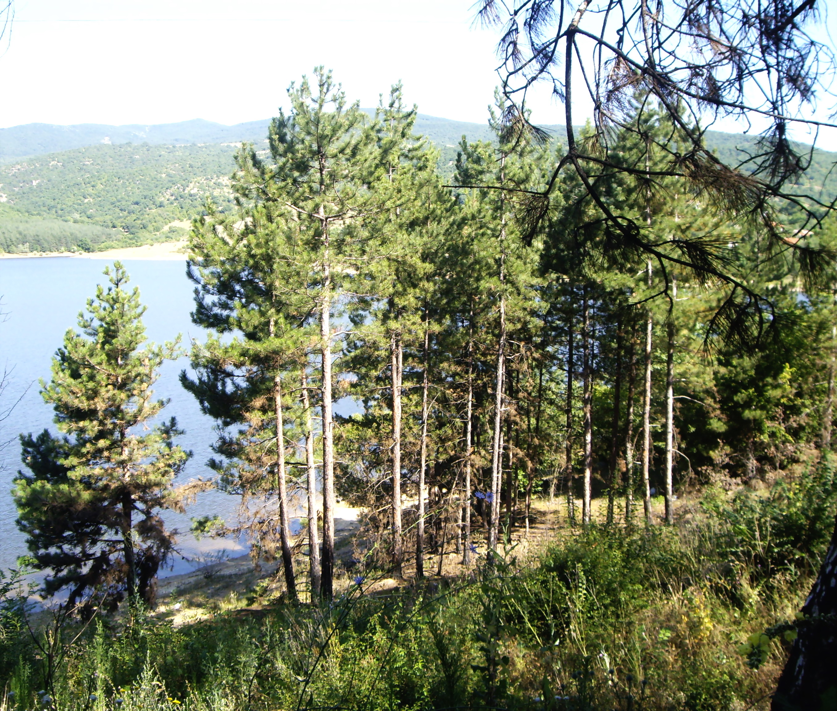 Forest near Dundukovo dam in Central Bulgaria